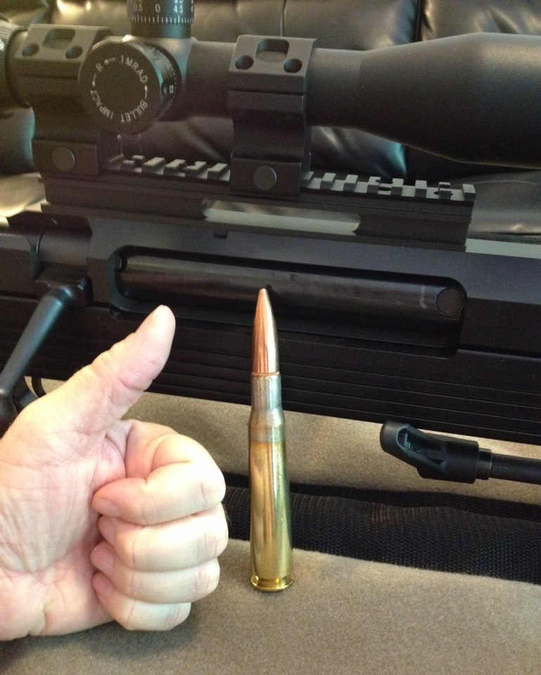 AR50A1B with 1 round